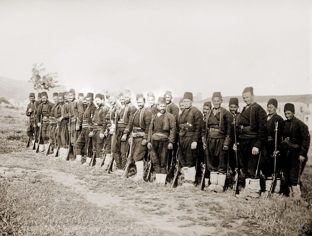 Ottoman redif soldiers